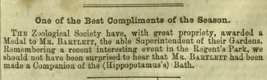 Punch joke on Abraham Dee Bartlett